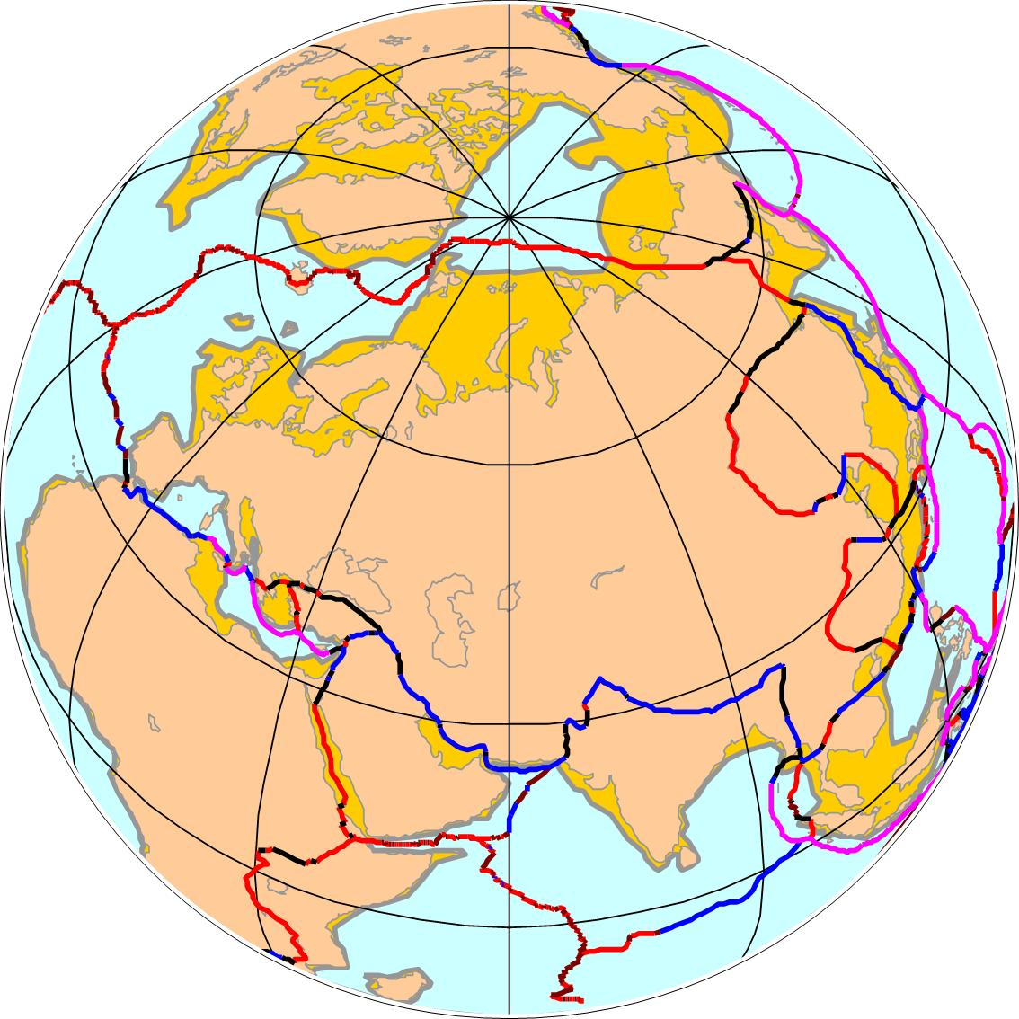 Eurasian tectonic plate. Orthogonal projection (as seen from deep space).